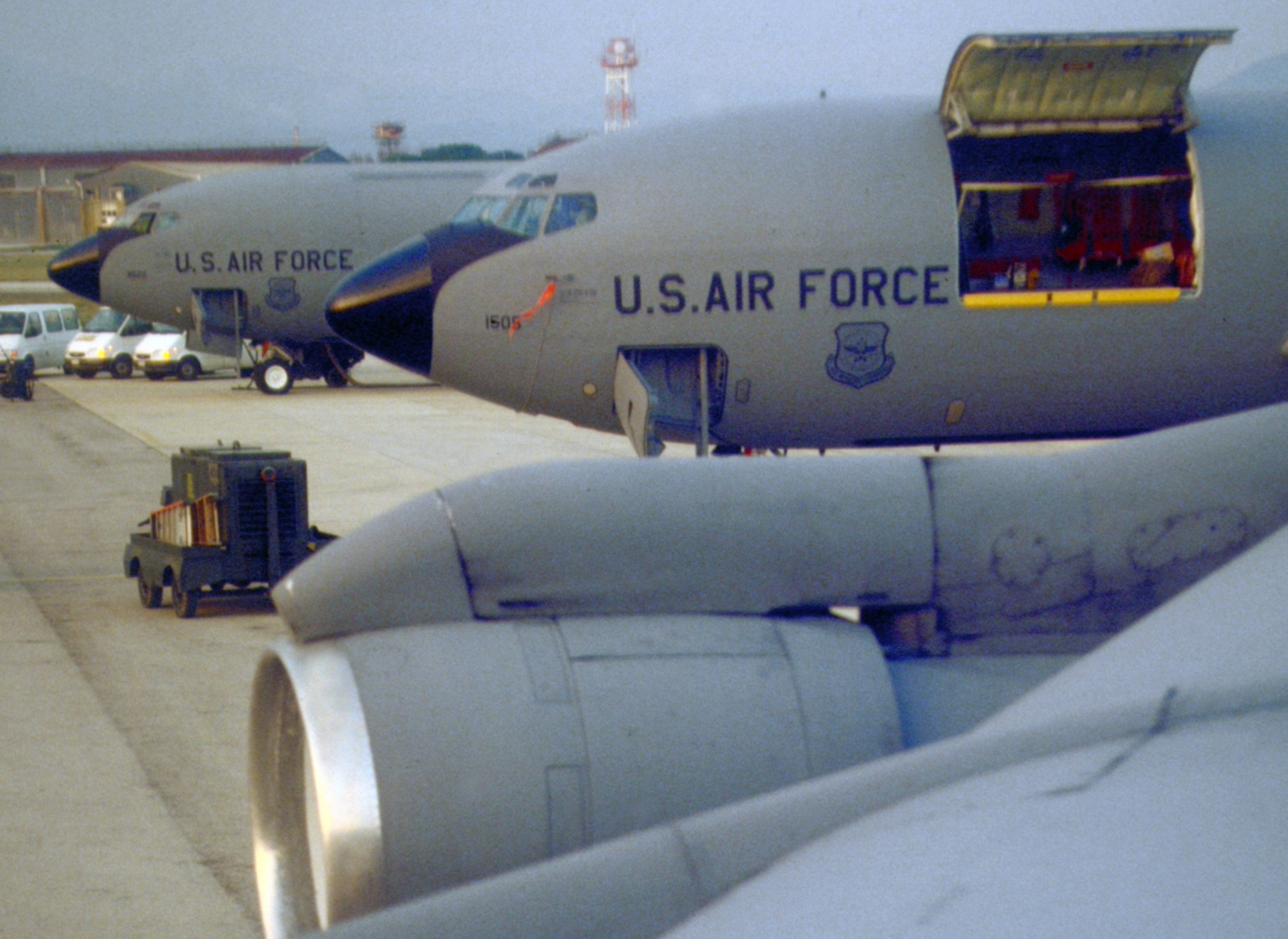 U.S. Air Force Boeing KC-135E Stratotanker aircraft from the 132nd Air Refueling Squadron, 101st Air Refueling Wing, Maine Air National Guard, parked on the flightline during a 30 day rotation to Pisa, Italy, in March 1996. The four man crews (pilot, copilot, navigator and boom operator) flew 5 to 10 hour missions, circling a preplanned route over the Adriatic, refueling NATO fighters participating in operations "Decisive Edge" and "Joint Endeavor". Identifyable is KC-135E 57-1505 which was retired to the AMARC as CA0205 in April 2008.